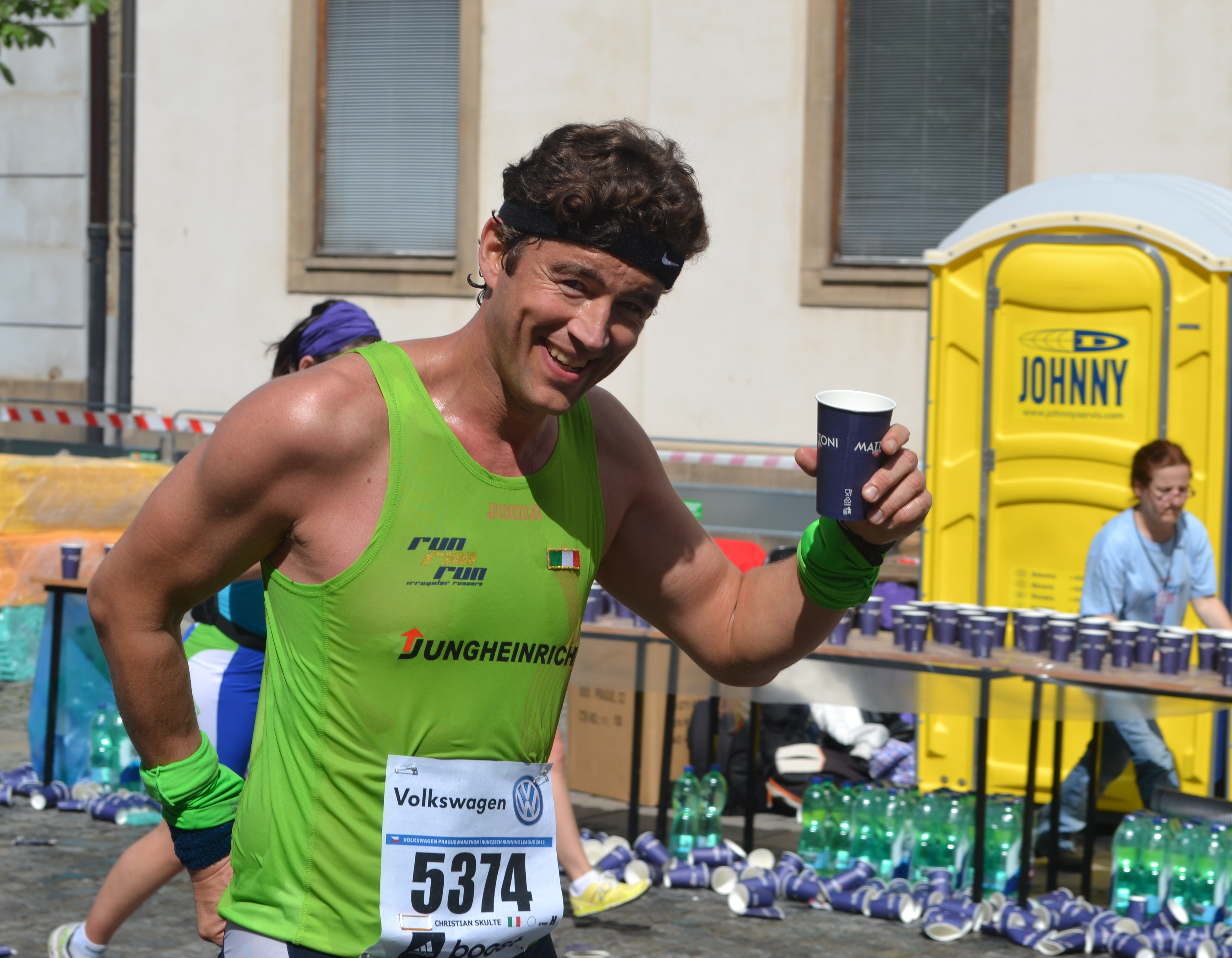 Prague Marathon 2013